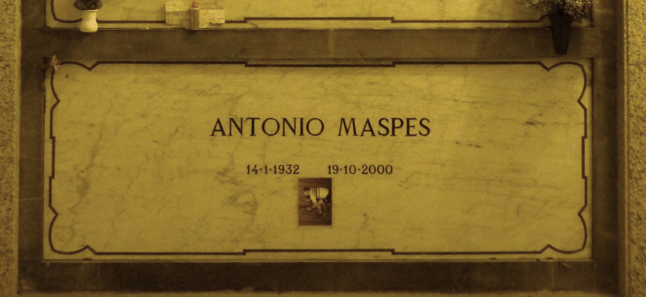 The grave of Italian cyclist Antonio Maspes at the Monumental Cemetery of Milan, Italy.